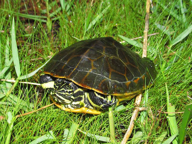 chicken turtle (Deirochelys reticularia) Florida Sub adult